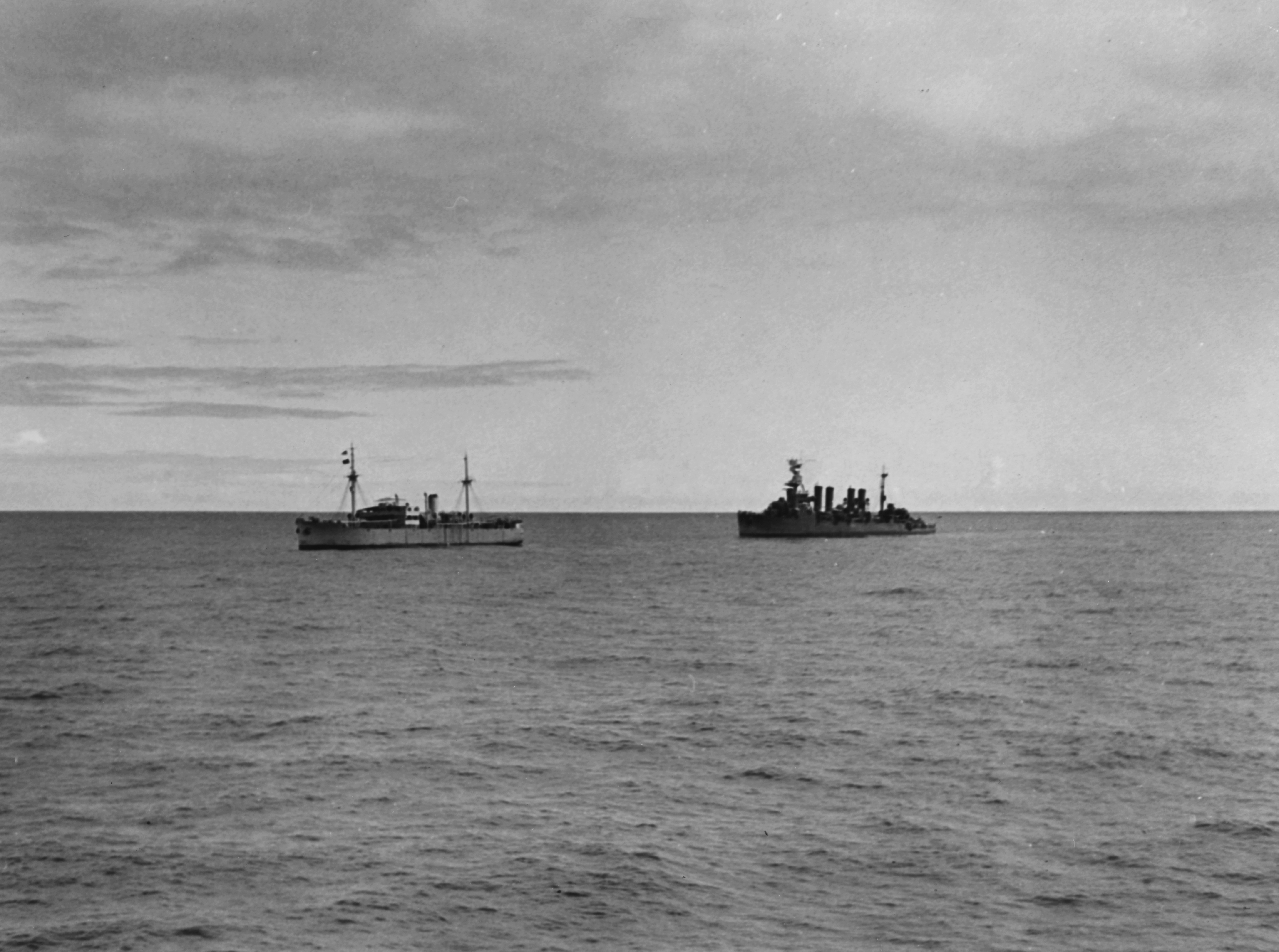 The U.S. Navy light cruiser USS Omaha (CL-4), in right center, standing by the German blockade runner Odenwald, which had a U.S. boarding party on board, in the South Atlantic, 6 November 1941. Odenwald was disguised as the U.S. merchantman SS Willmoto and the crew tried unsuccessfully to scuttle the ship.